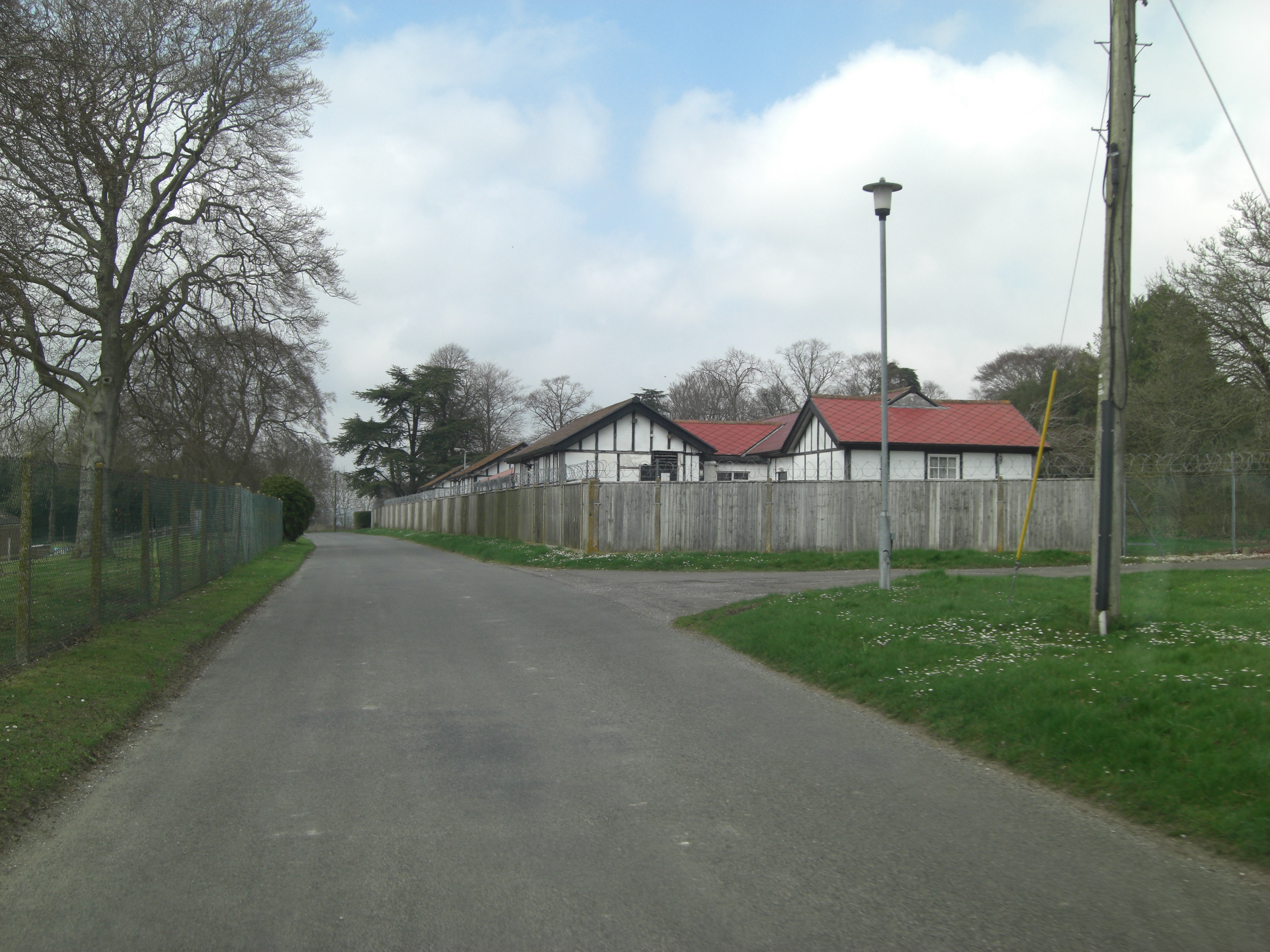 Southwestern corner of Airfield Camp, Netheravon